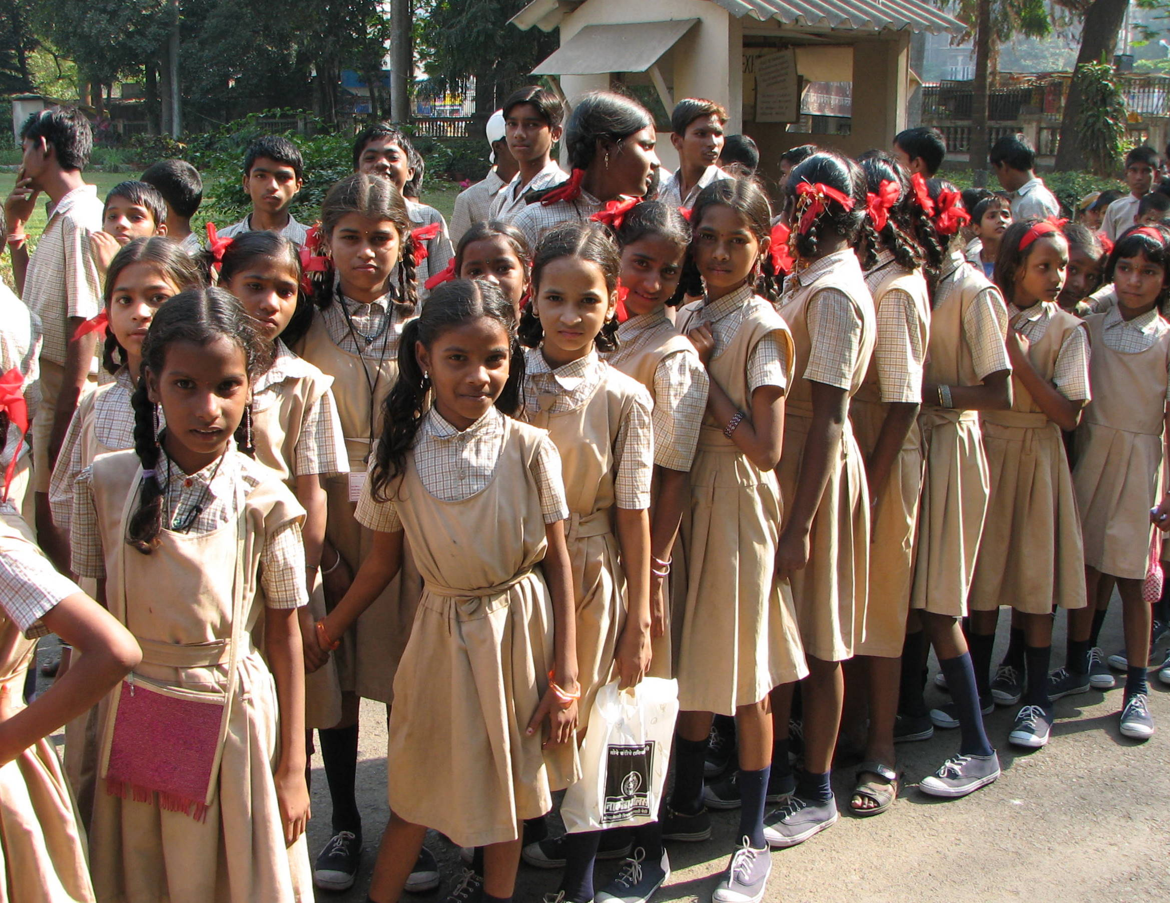 Young students, Mumbai, India